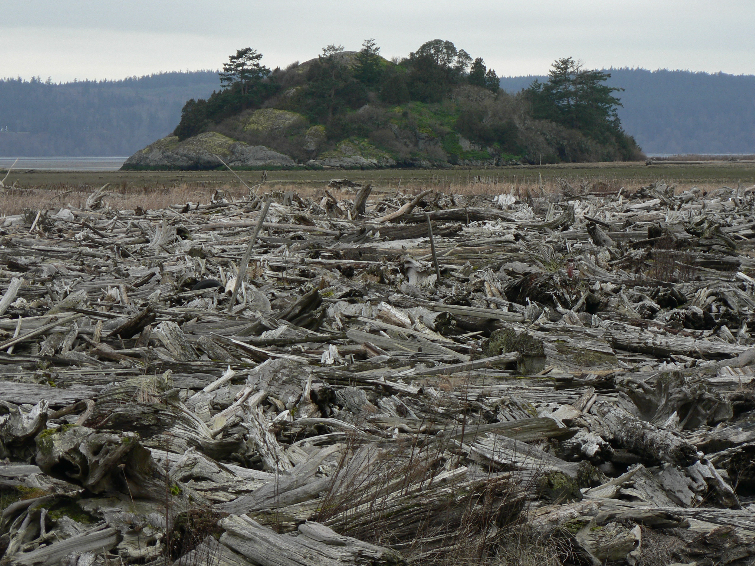 Driftwood; Craft Island (behind)